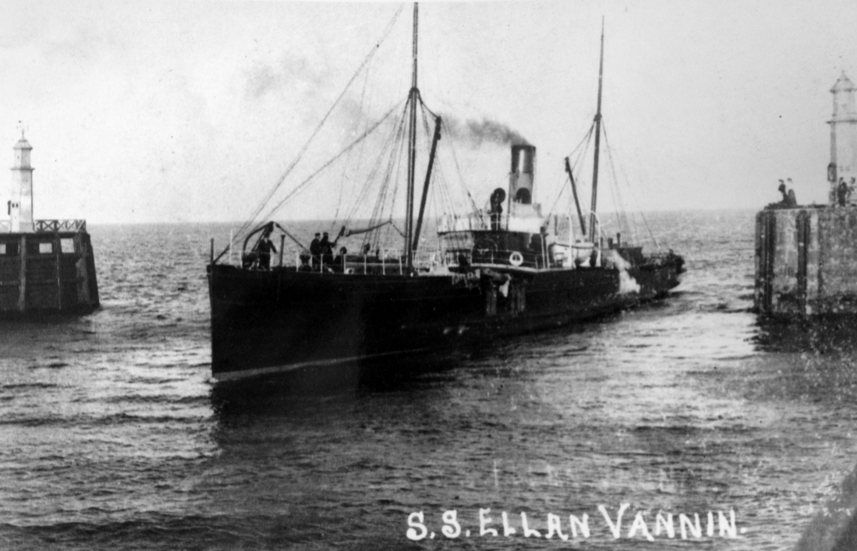 RMS Ellan Vannin pictured entering Ramsey Harbour.